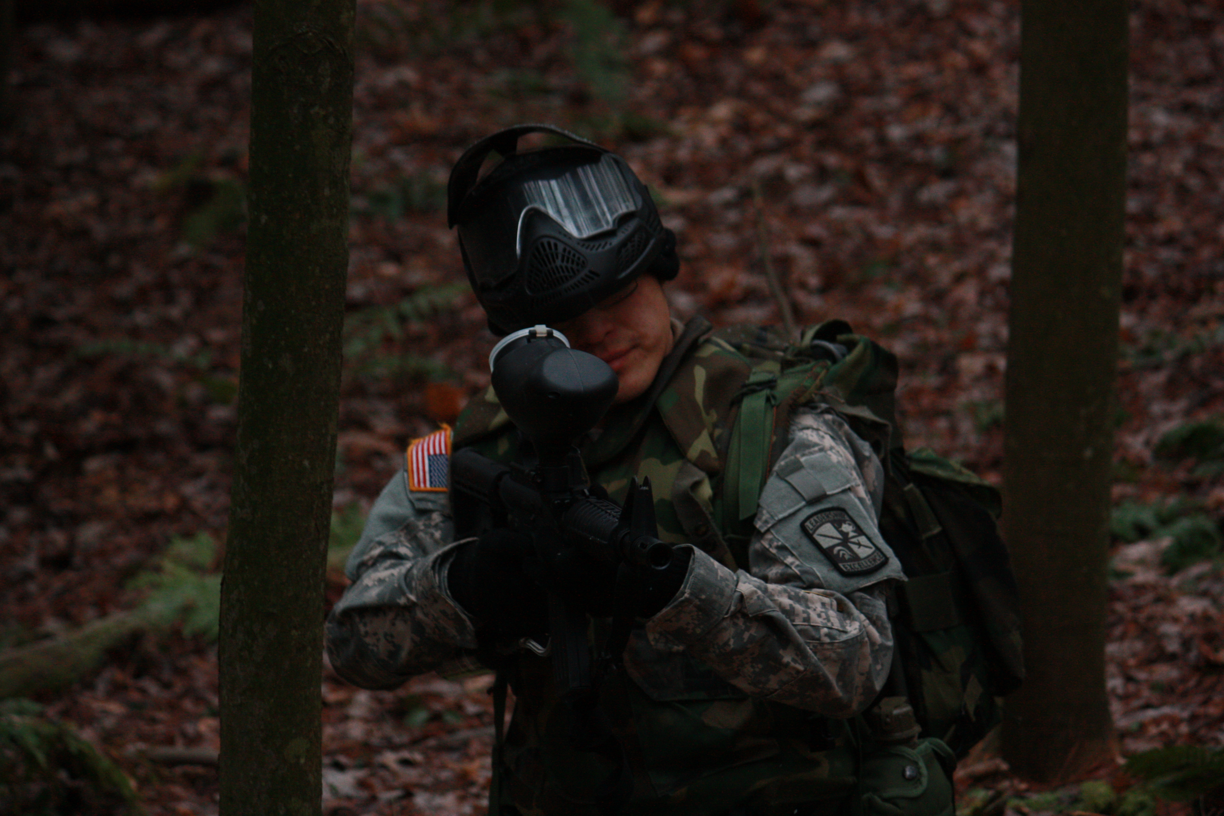 PSU AROTC Cadets Practice Force on Force